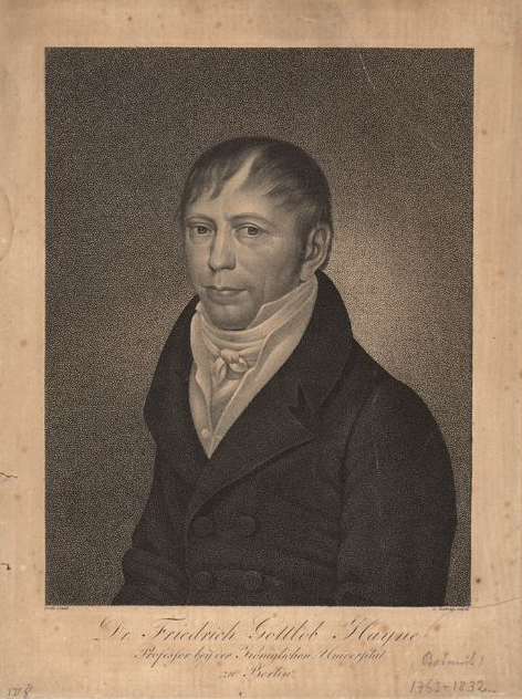 Friedrich Gottlob Hayne (1763-1832), German botanist Hayne [hss. mit schwarzer Tinte] b) Grahl prinxit. [gedr.] c) G. Bretzing sculpit [gedr.] d) Dr. Friedrich Gottlob Hayne / Professor bey der Königlichen Universität / zu Berlin. [3zeilige Legende, gedr.] e) 508 [hss. mit Bleistift] f) Botanik 1763-1832 Karton 46 x 34,3; Blatt 33,5 x 25,2; Bild 26,5 x 20,3